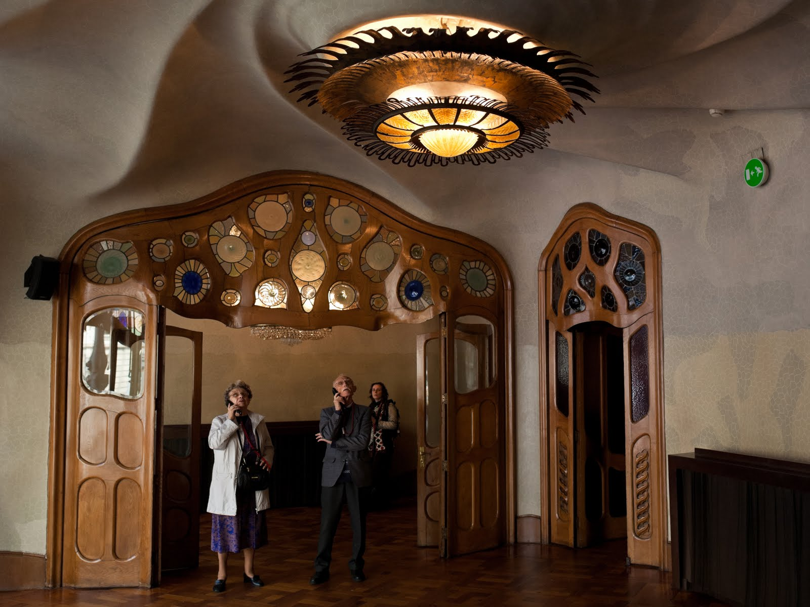 The photography shows an interior view of Casa Batlló.